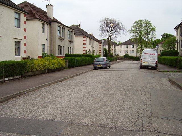 Ferguslie Park Original description: Ferguslie Park An older part of the Paisley housing scheme. To the west are more recently built houses, to the east, a street pattern but with few remaining buildings.